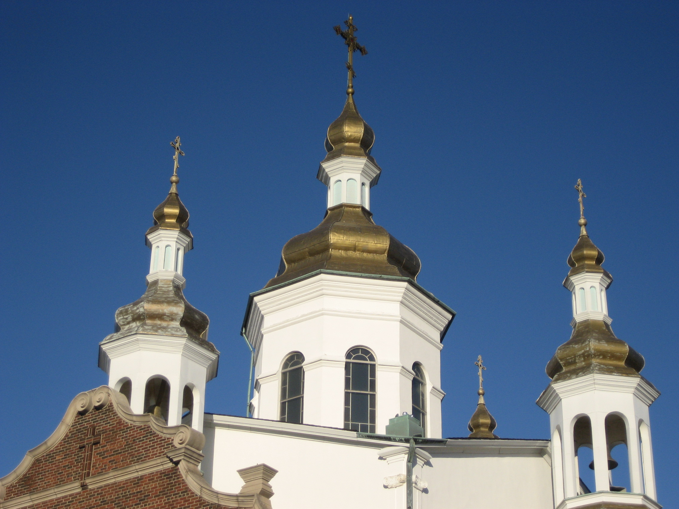 Ukrainian Orthodox Cathedral of St. Vladimir, Barton Street East, Hamilton